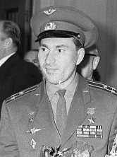 Russian astronaut Pavel Belyayev in Kiev (Ukraine). Before January 10th of 1970.